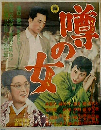 Movie poster for 1954 Japanese movie The Woman in the Rumor aka The Crucified Woman (噂の女 Uwasa no onna).